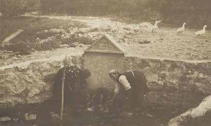 Bulgaria